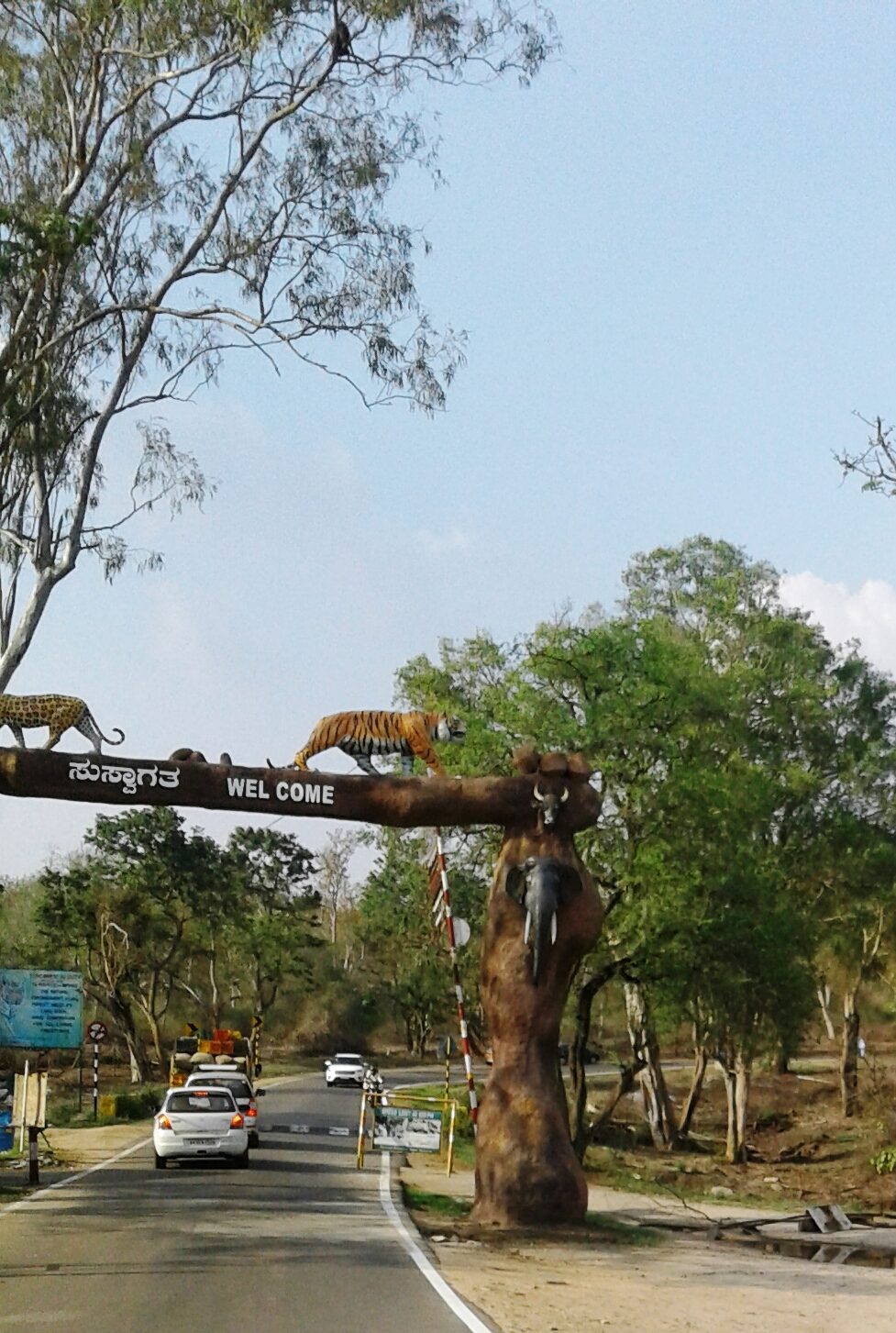 Bandipur and Mudumalai national forests, Tamil nadu Karnataka border, South India.